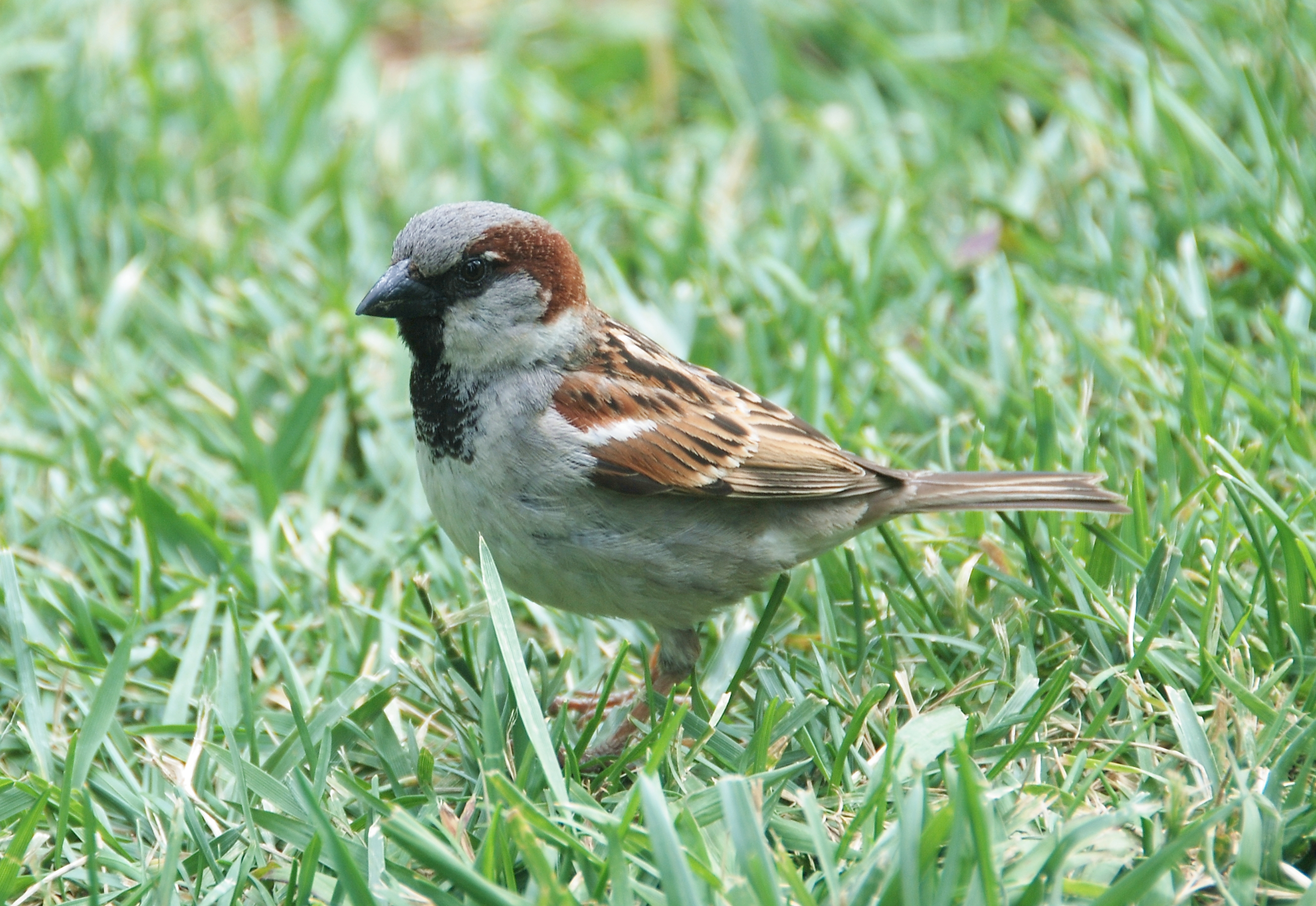 A male House Sparrow